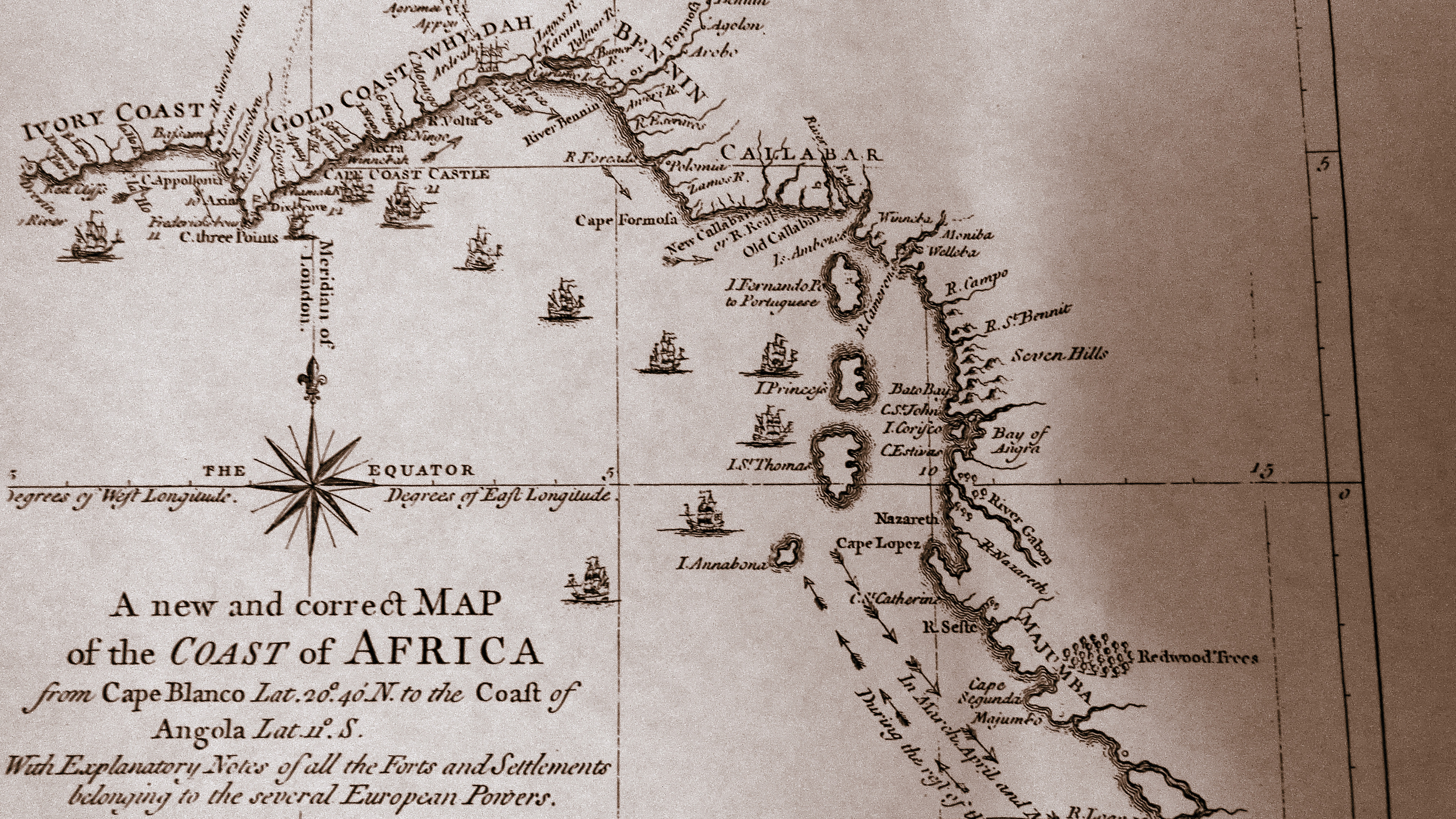 From Malachy Postlethwayt's 1774 edition of 'Universal Dictionary of Trade...", a British translation of an earlier French trade dictionary